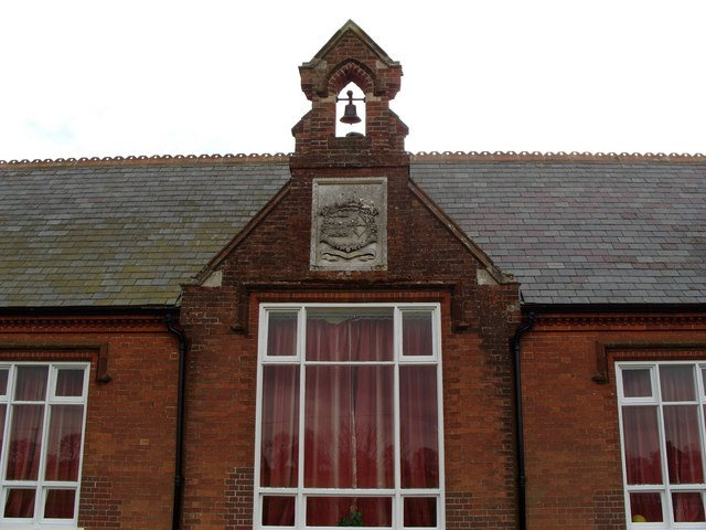 Crest on 'Bell Tower', Bawdeswell School The crest is of the Evans-Lombe family, who were landowners in Bawdeswell at the time the school was built in 1875.